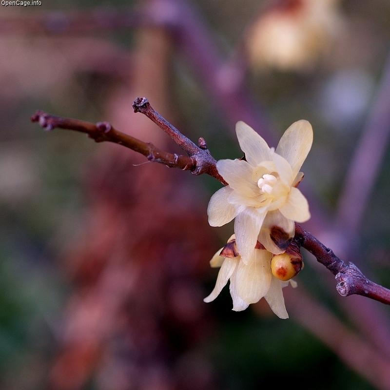 ロウバイ Chimonanthus praecox Chimonanthus, Chimonanthus